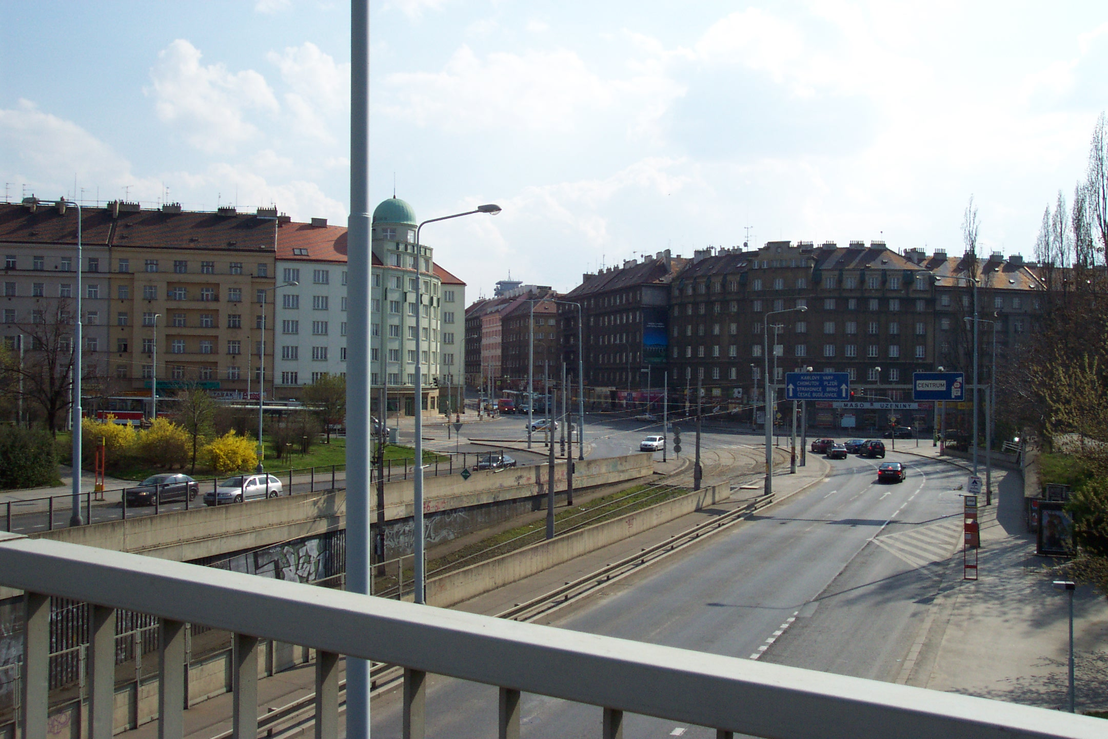 Crossing at Prague Ohrada